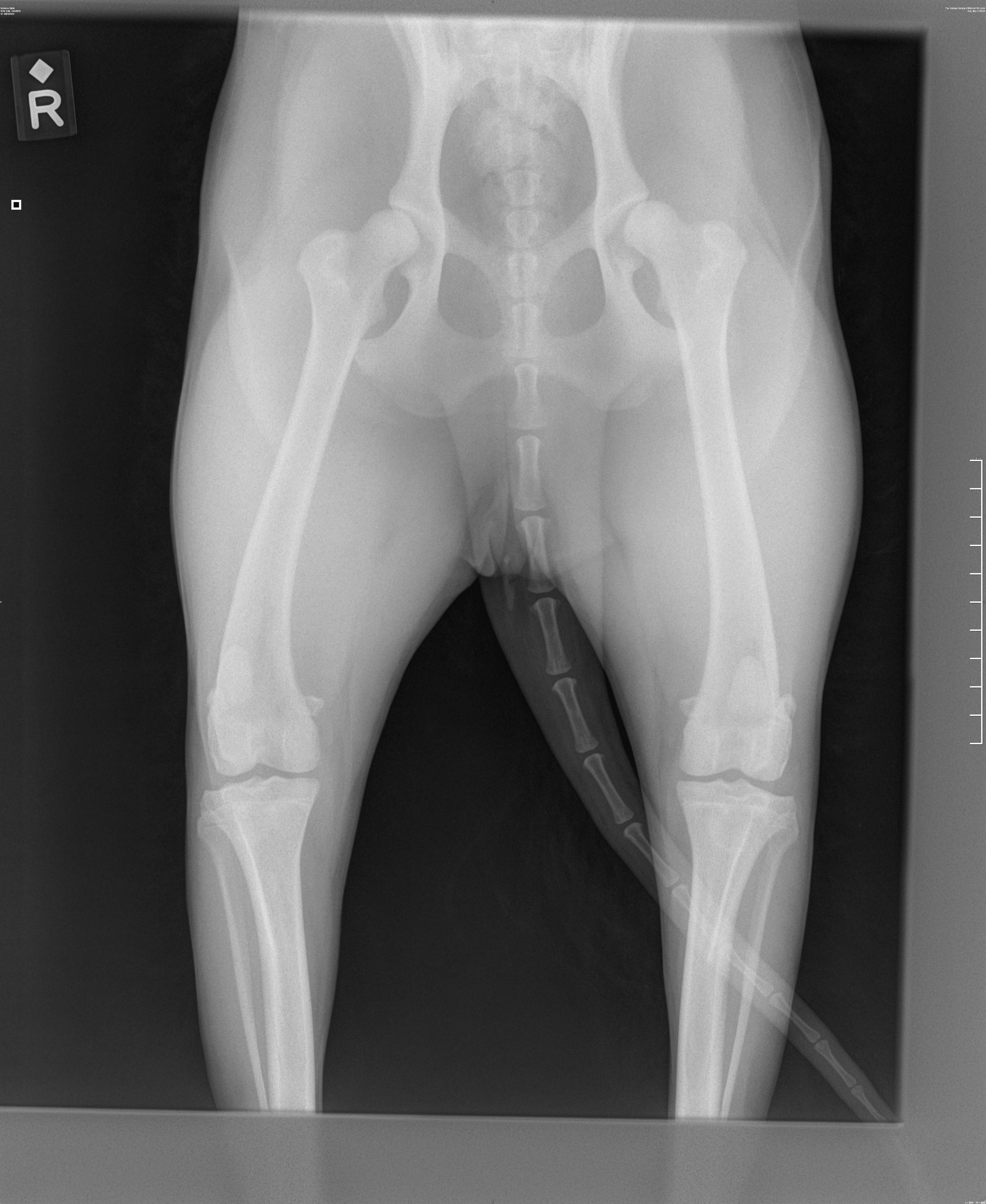 Posterior / rear view hip xray from a ~60 pound Golden Retriever Poodle dog.